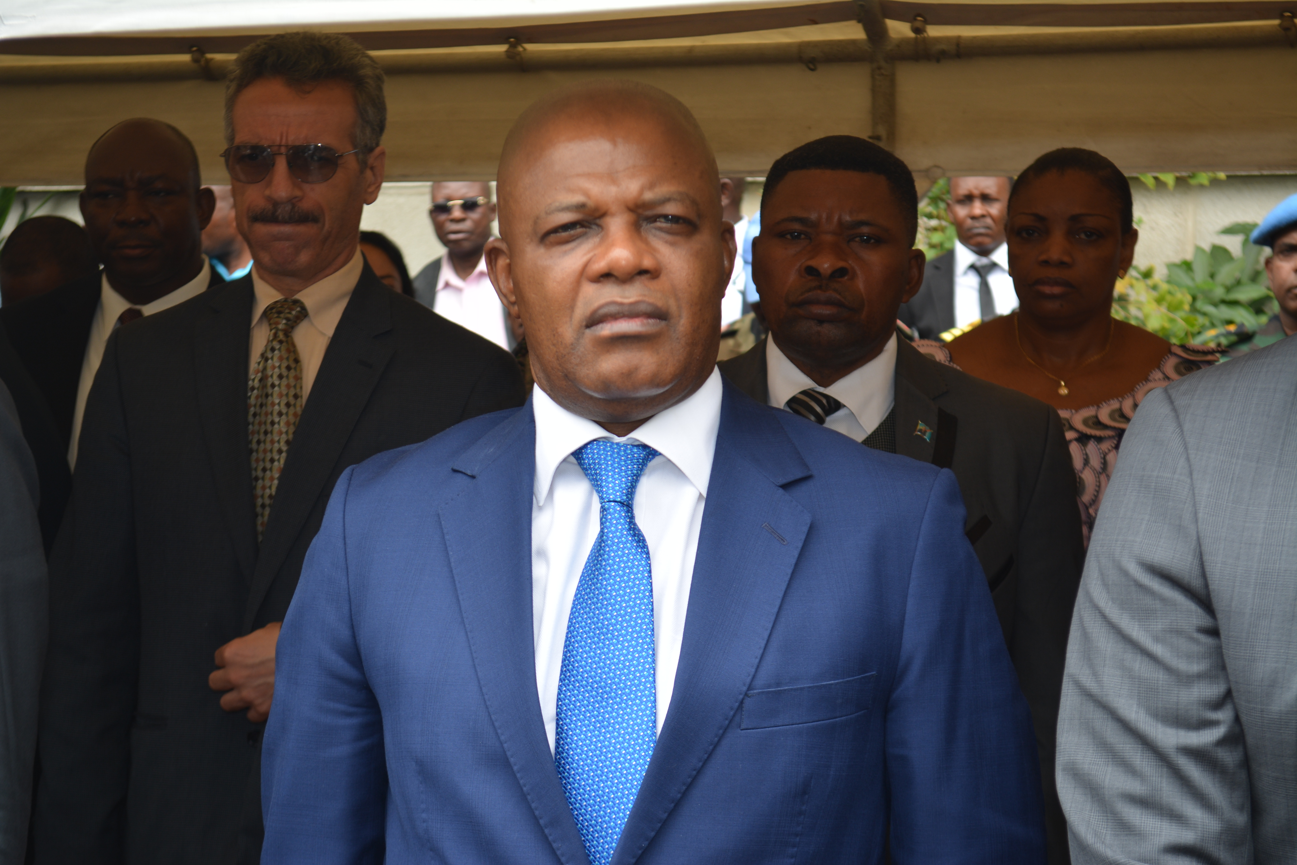 Losonia Building, Kinshasa, DR Congo: Ceremony marks United Nations Day, co-presided over by the Deputy Prime Minister and Minister for Interior and Security, Evariste Boshab (left), and the acting Special Representative of the UN Secretary-General, David Gressly (middle) in the presence of the Deputy Special Representative of the Secretary-General and Humanitarian Coordinator, Dr Mamadou Diallo (right). Photo MONUSCO/John Bompengo